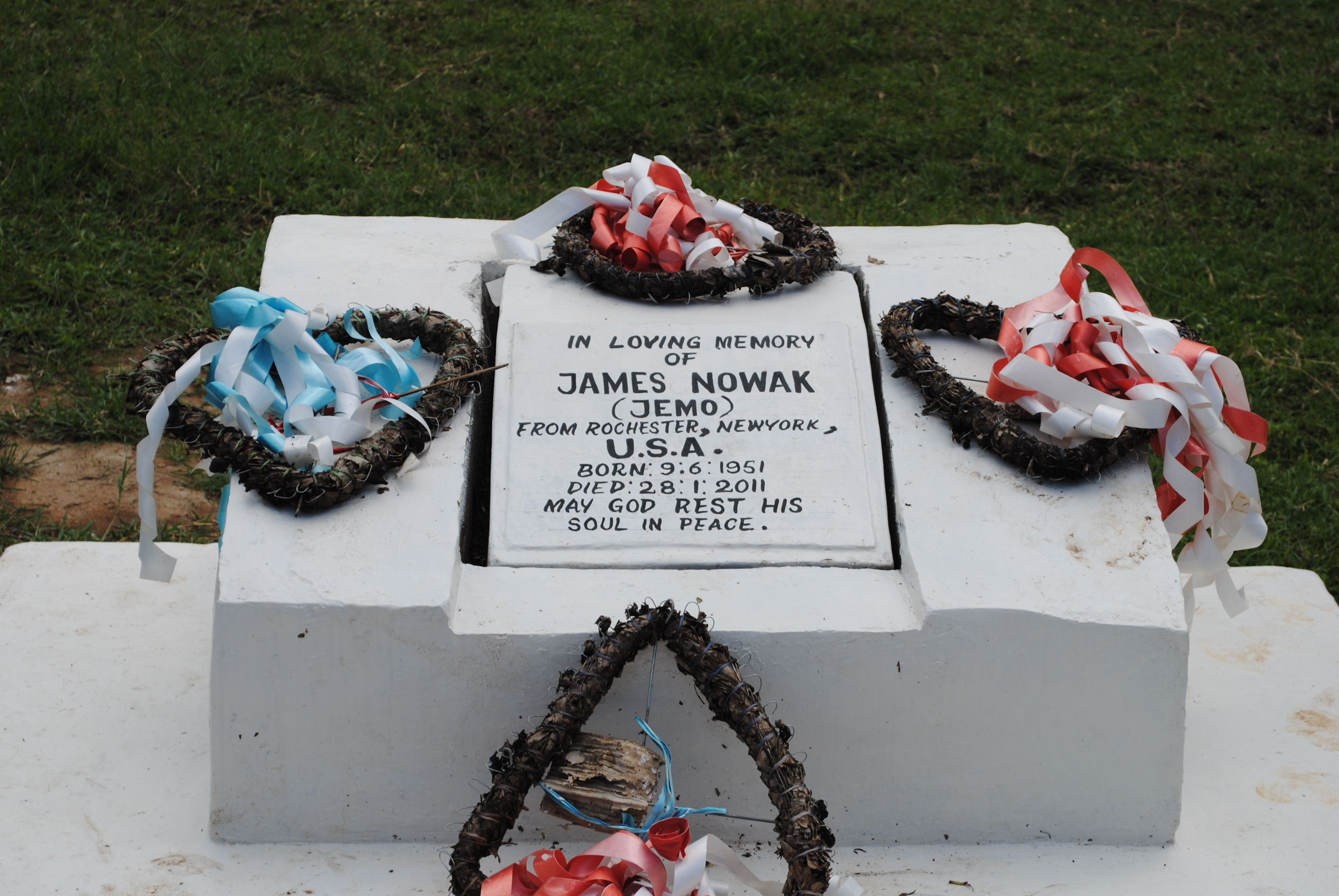 Memorial to Mr. James Nowak, a Rochester, NY teacher that supported the Mbaka Oromo Primary School, who tragically died in a car accident in Kenya on January 28, 2011.